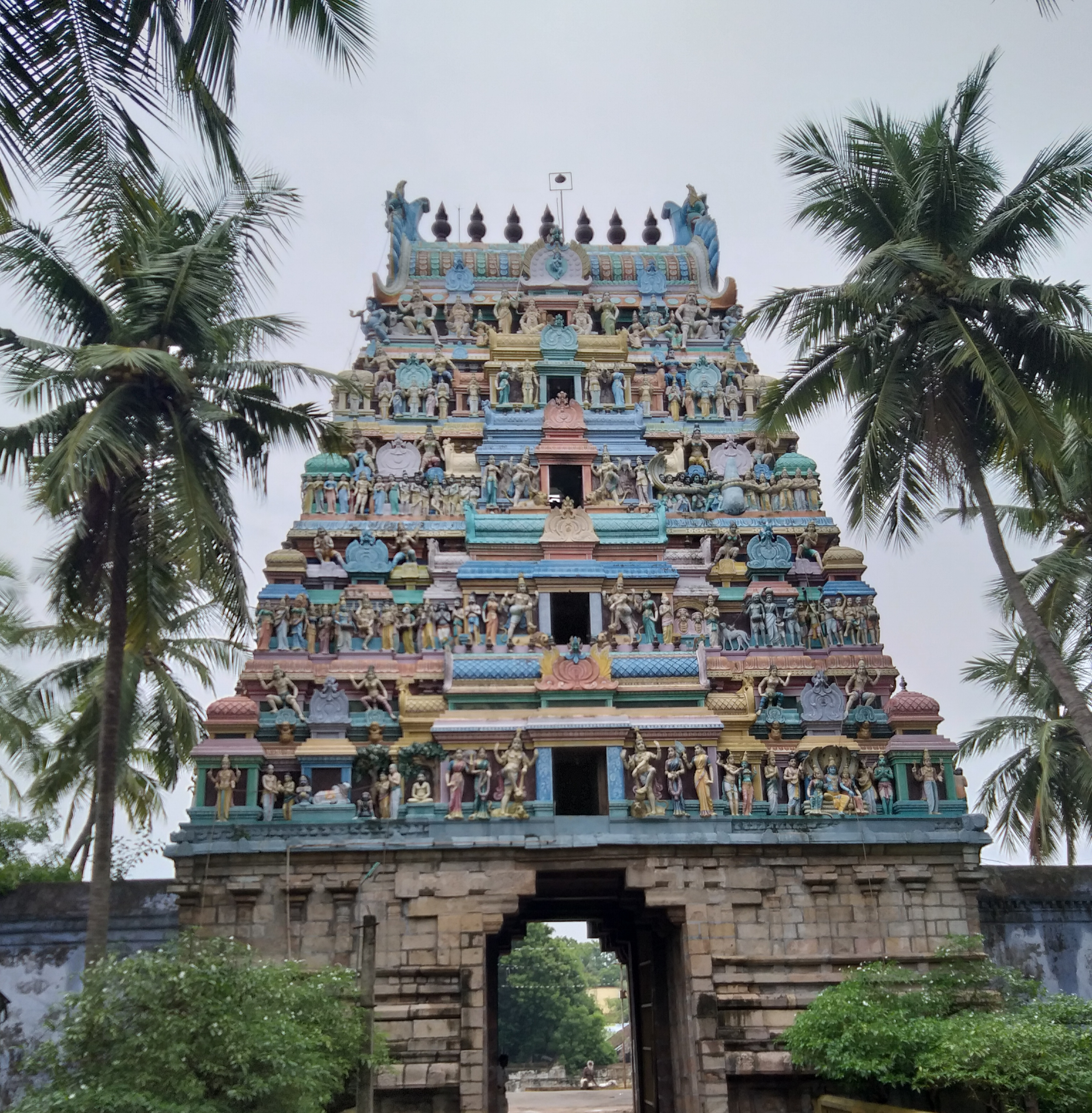 These temples are common in India's culture and they are connected with yoga practices.